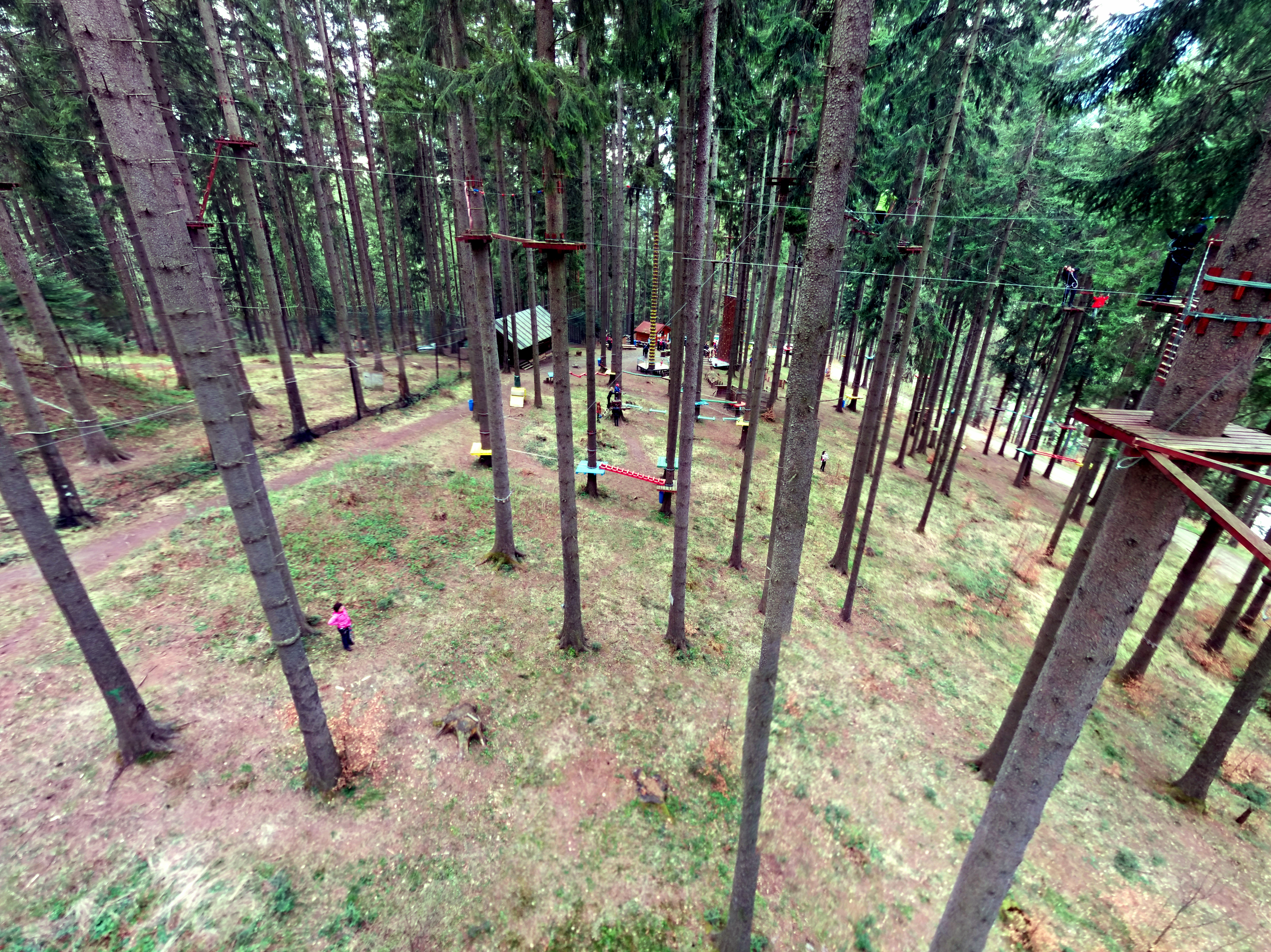 Adventure Park in Busteni